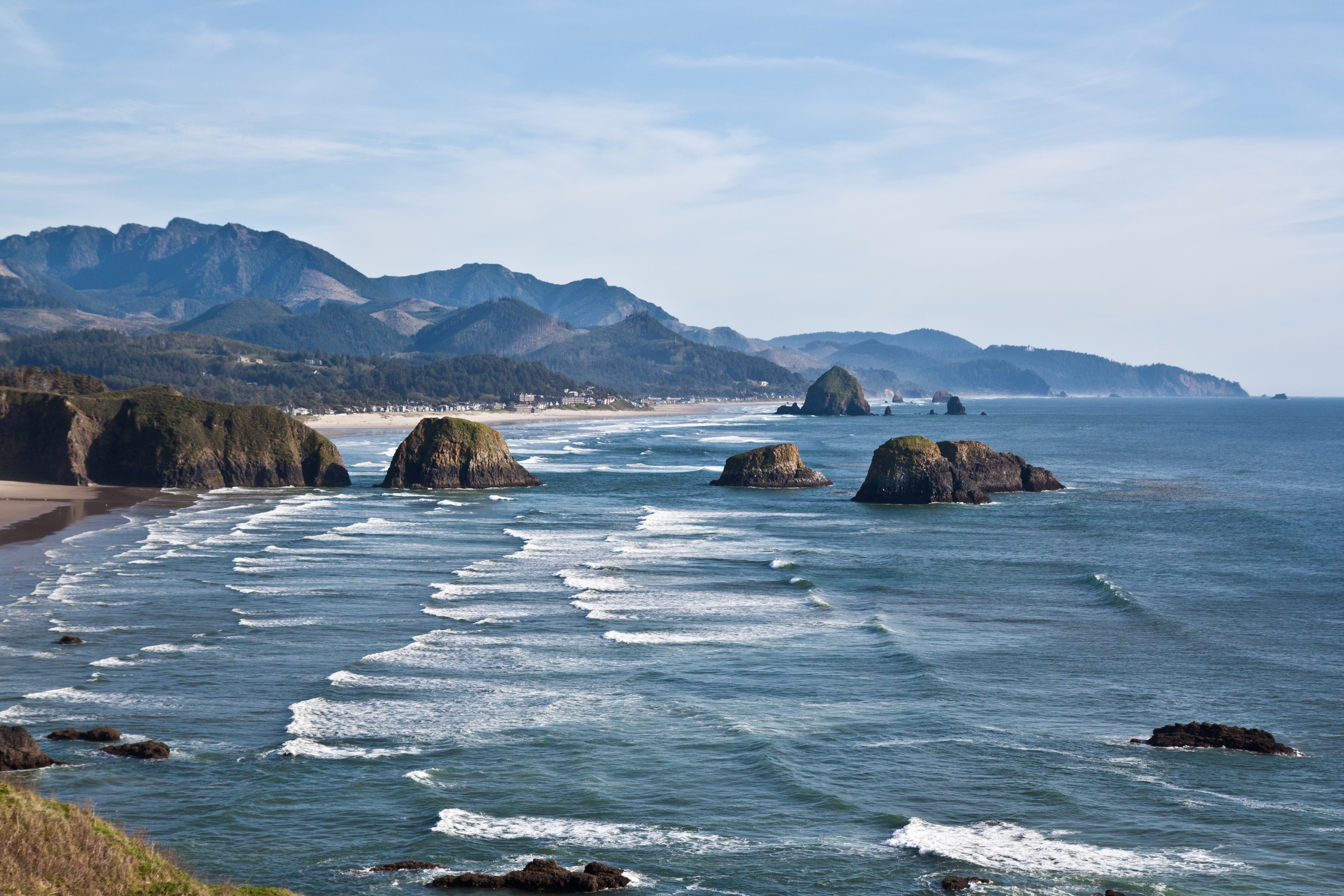 The Oregon coastline looking south from Ecola State Park.